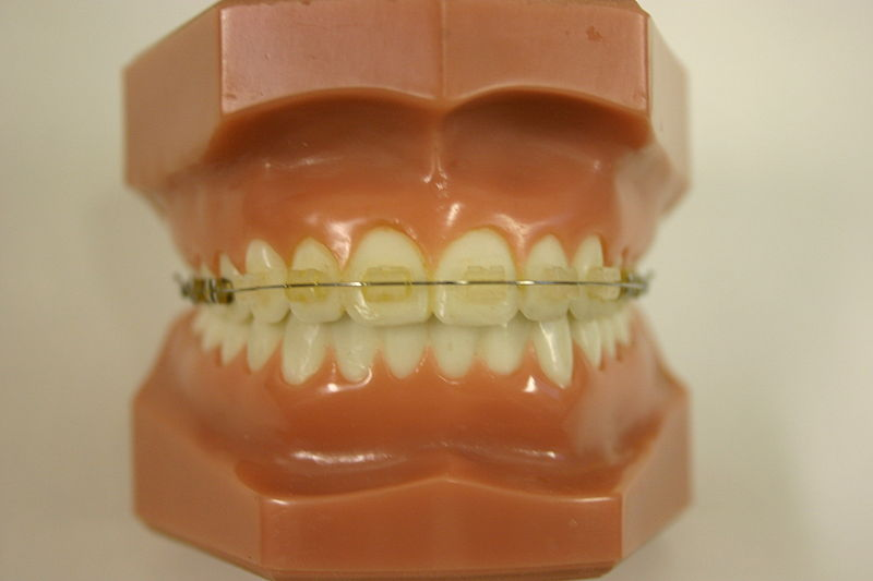 Transparent Bracket